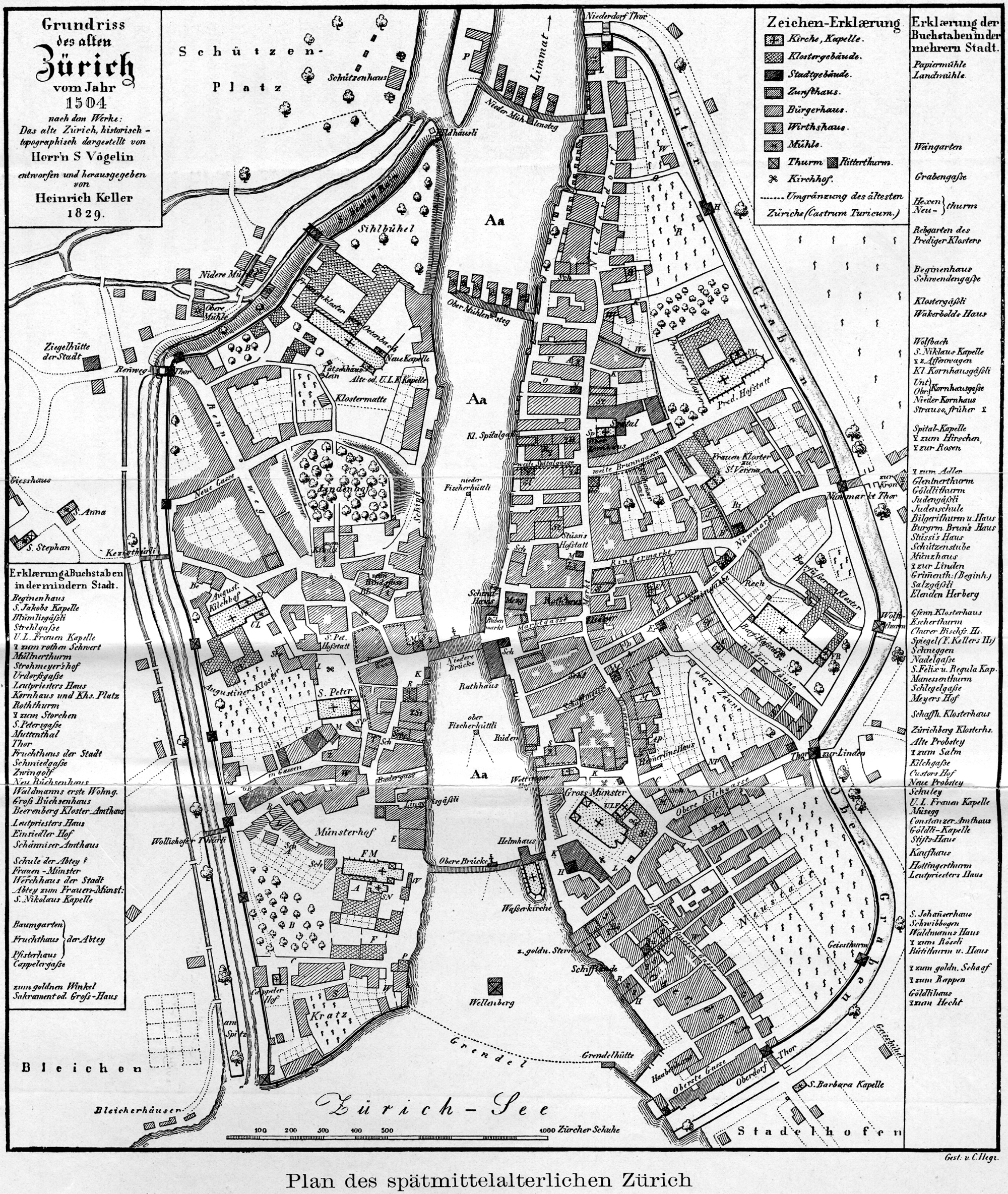 Plan of the city of Zurich 1504